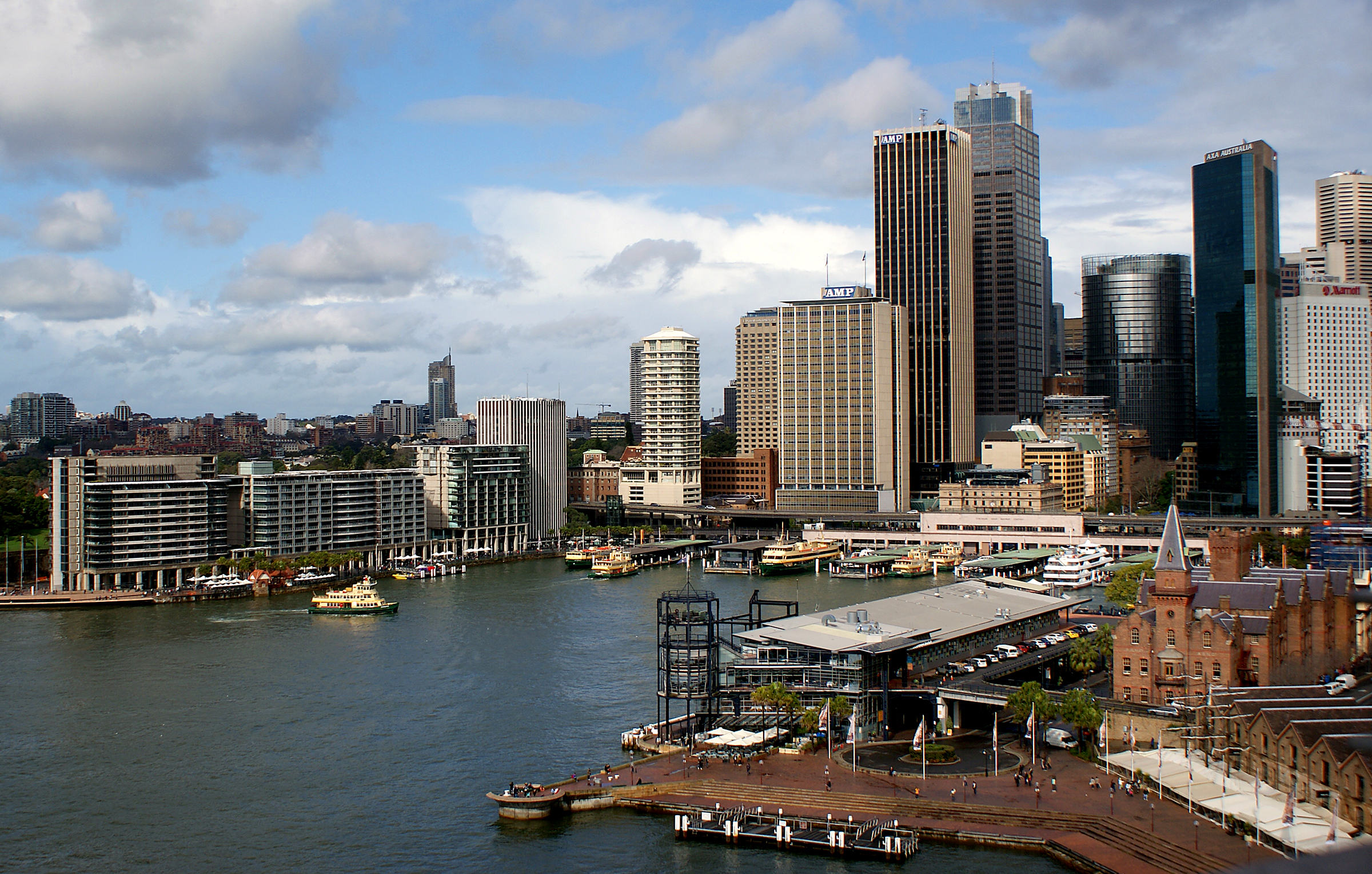 Circular Quay is the hub of Sydney Harbour, situated at a small inlet called Sydney Cove, the founding site for Sydney and Australia. It is a stepping-off point for most attractions based around the harbour and an exciting place to be on a warm summer's day. The quay is a vibrant, bustling place with ferries leaving every few minutes to different parts of the harbour, including Manly, Watsons Bay, Mosman and Taronga Park Zoo. There are great views of the Harbour Bridge, a short distance away.